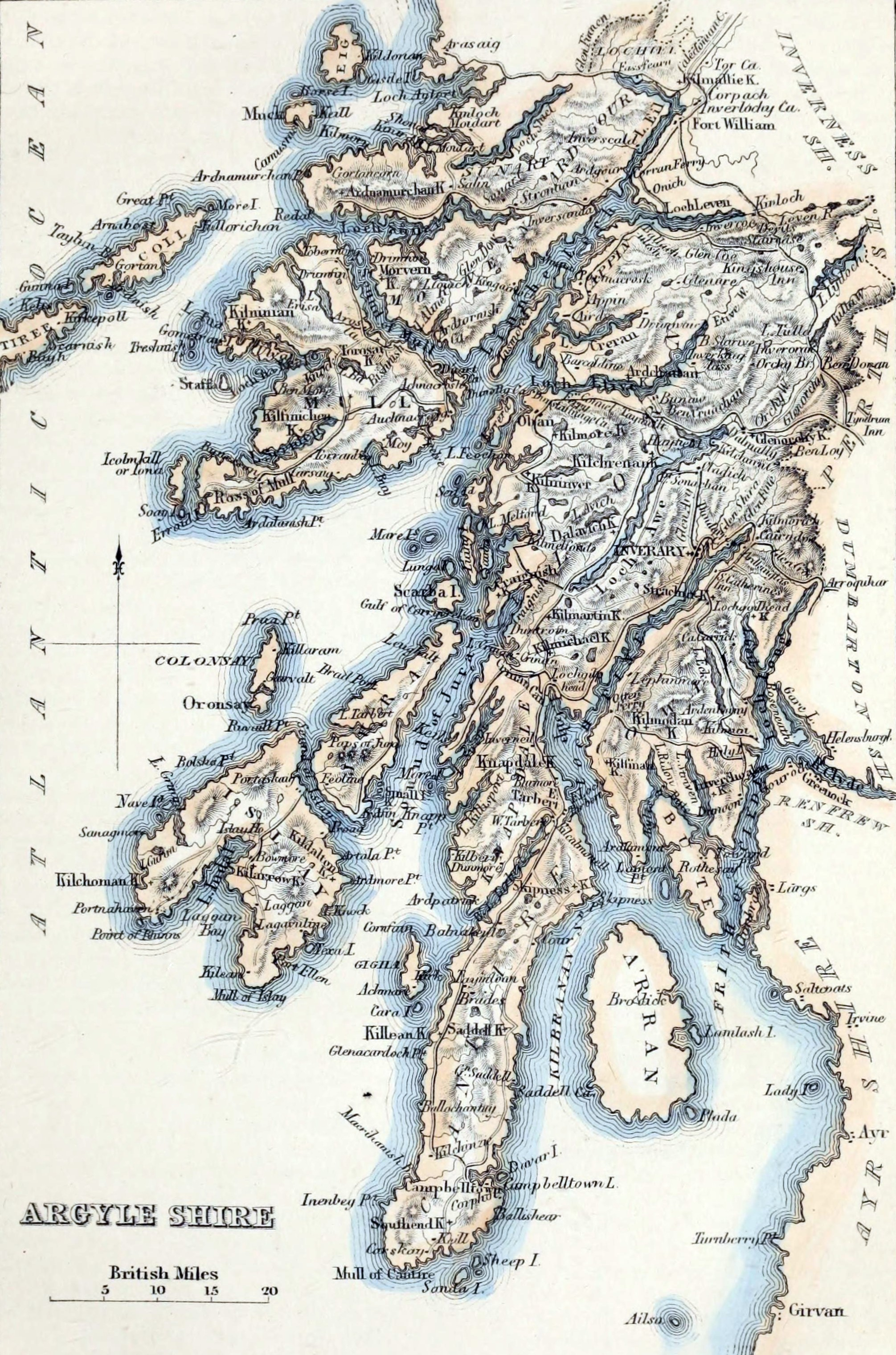 ARGYLESHIRE map. The Imperial gazetteer of Scotland. Vol.I. by Rev. John Marius Wilson.